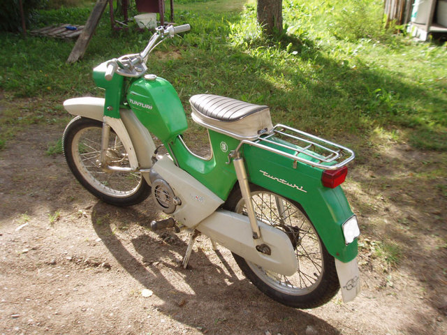 Tunturi Automat moped